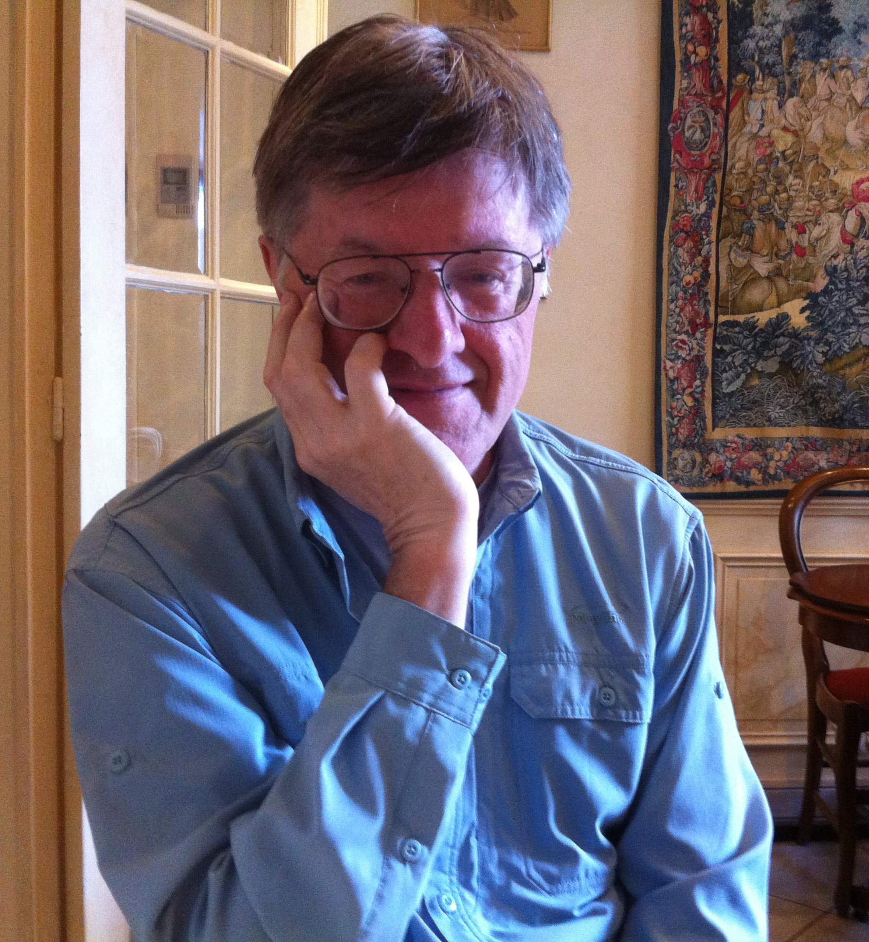 Photo of American / Canadian contemporary classical composer Raymond Luedeke.